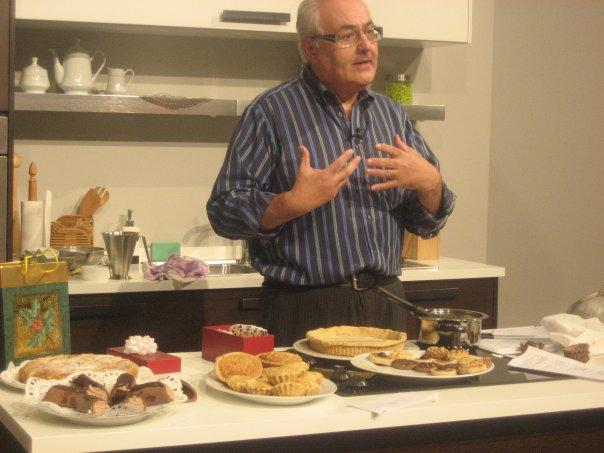 Anton B DOugall during the filming of a tv programme